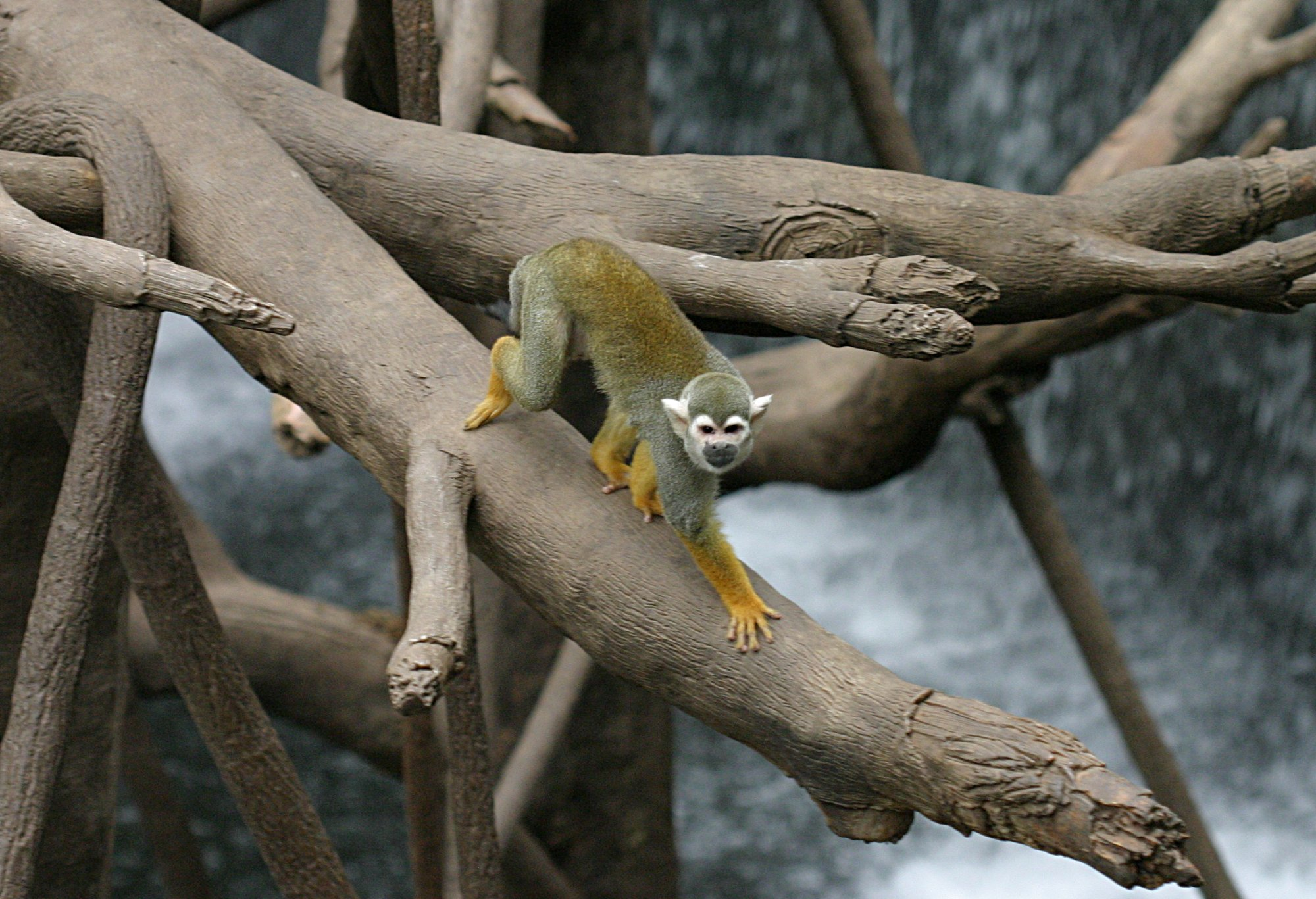 A common squirrel monkey at the Henry Doorly Zoo in Omaha, Nebraska.